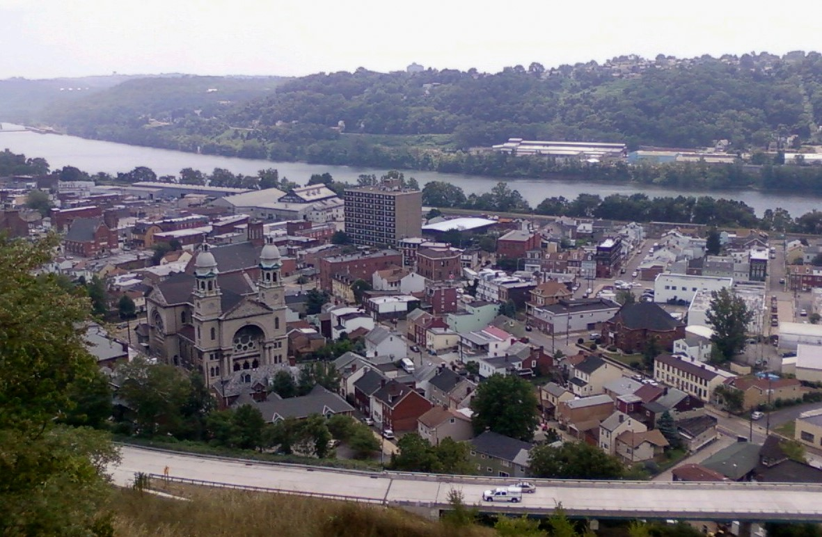 The borough of Sharpsburg, Pennsylvania. (Picture taken from an overlook on Sharpshill.)